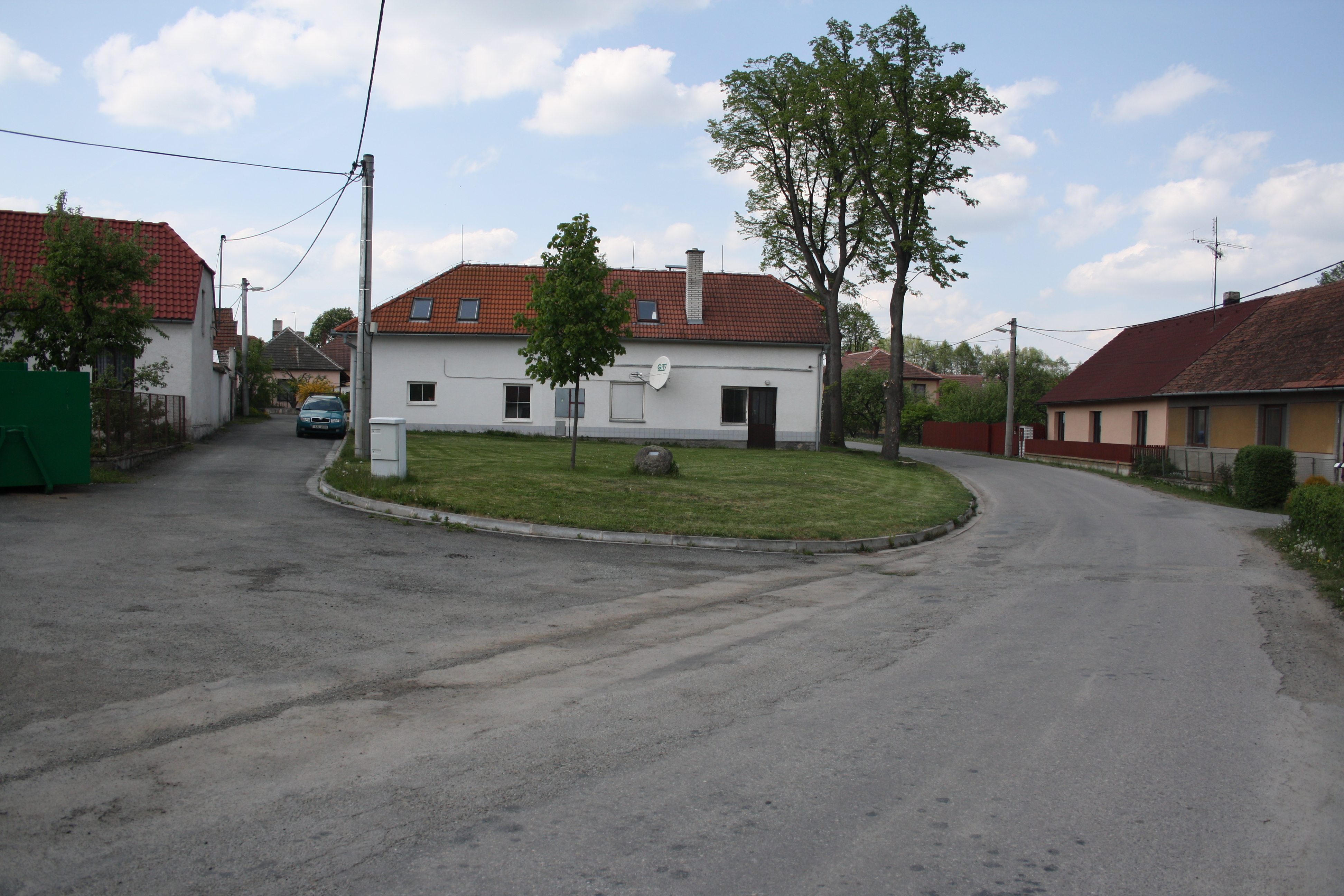 Overview of centrum of Valdíkov, Czech Republic.